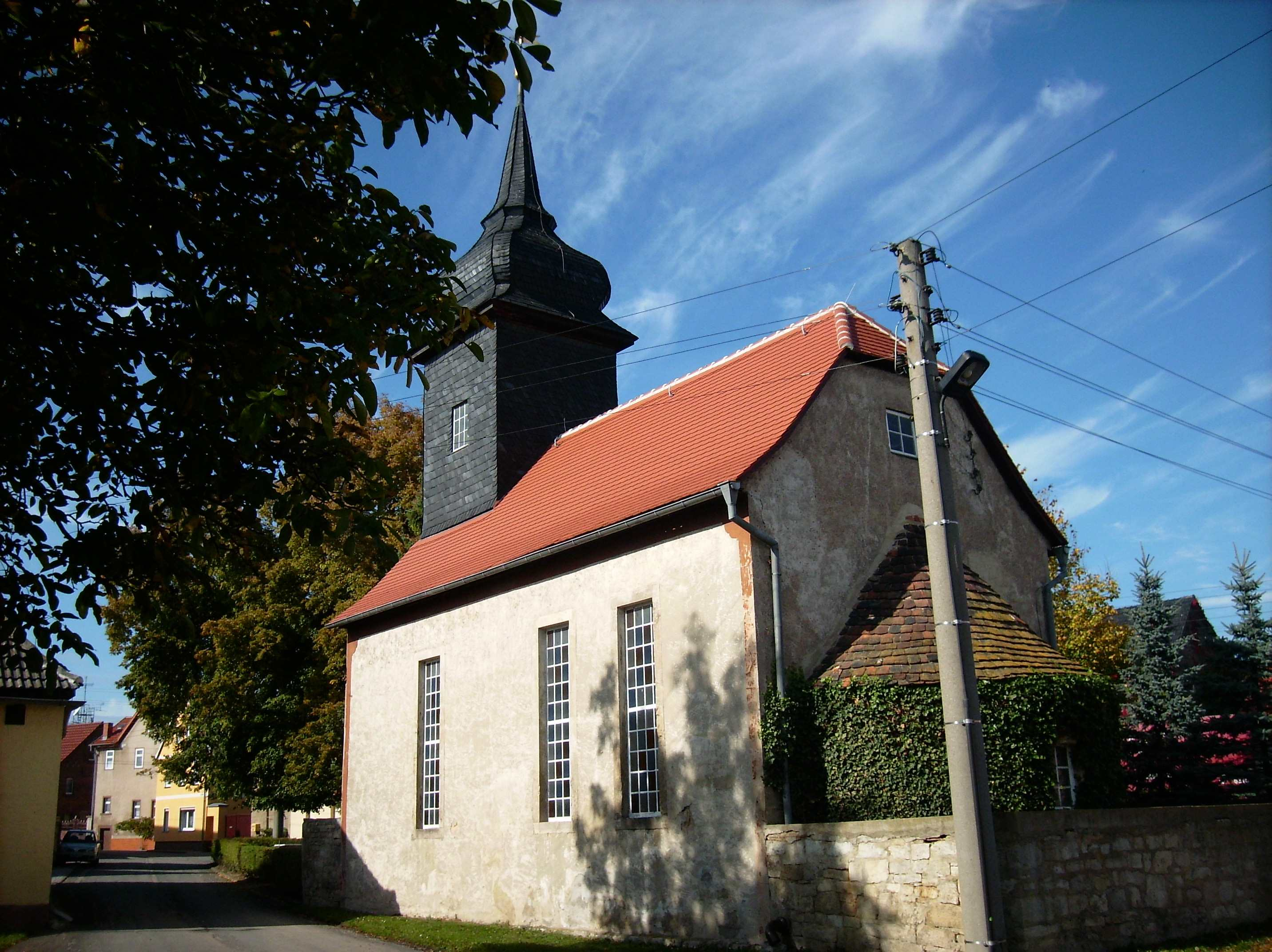 Thierschneck church (district of Saale-Holzland-Kreis, Thuringia)